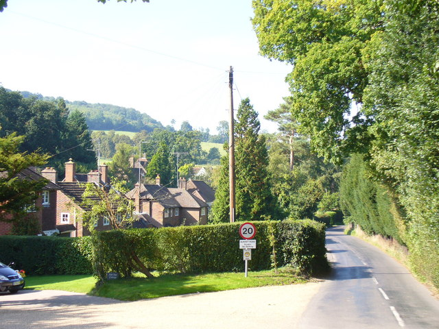 Chapel Lane, Westhumble Rural lane leading from the hamlet centre to the ruined chapel.